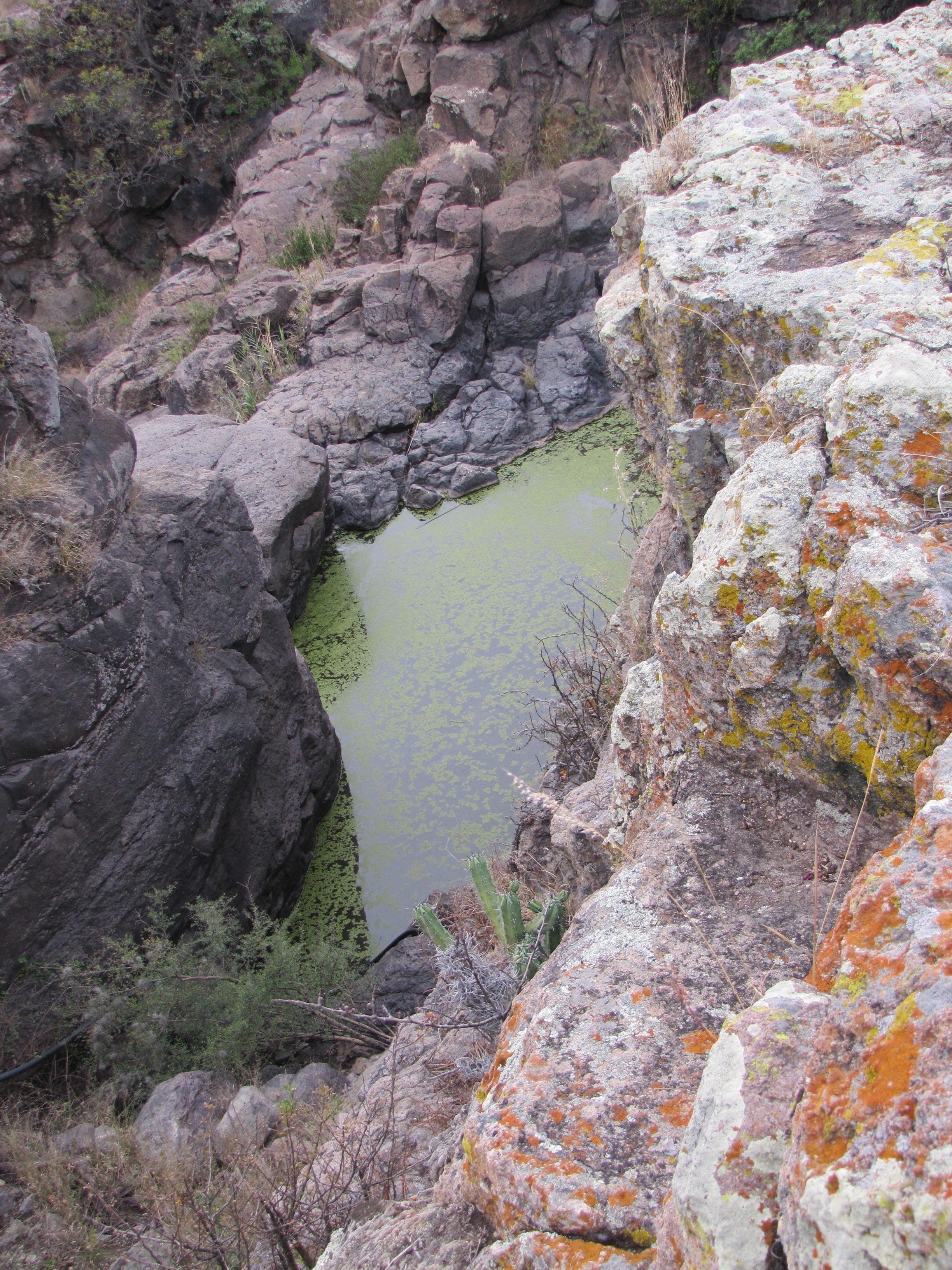 Ravine along the Laja River, El Charco del Ingenio botanic garden, San Miguel de Allende Guanajuato, Mexico